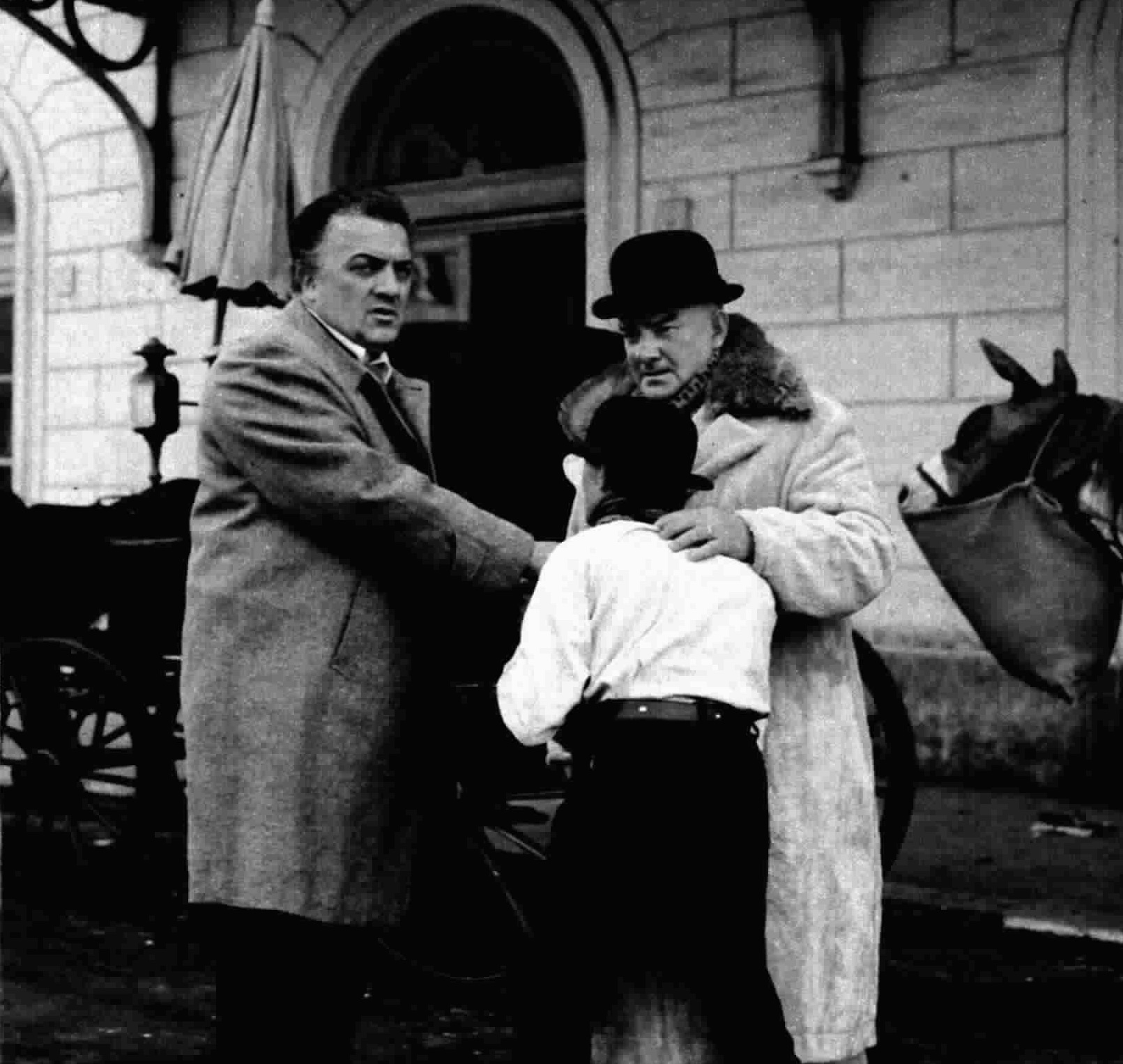 Federico Fellini in the set of I clown, Rome